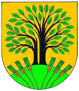 Coat of arms of Dachsenhausen